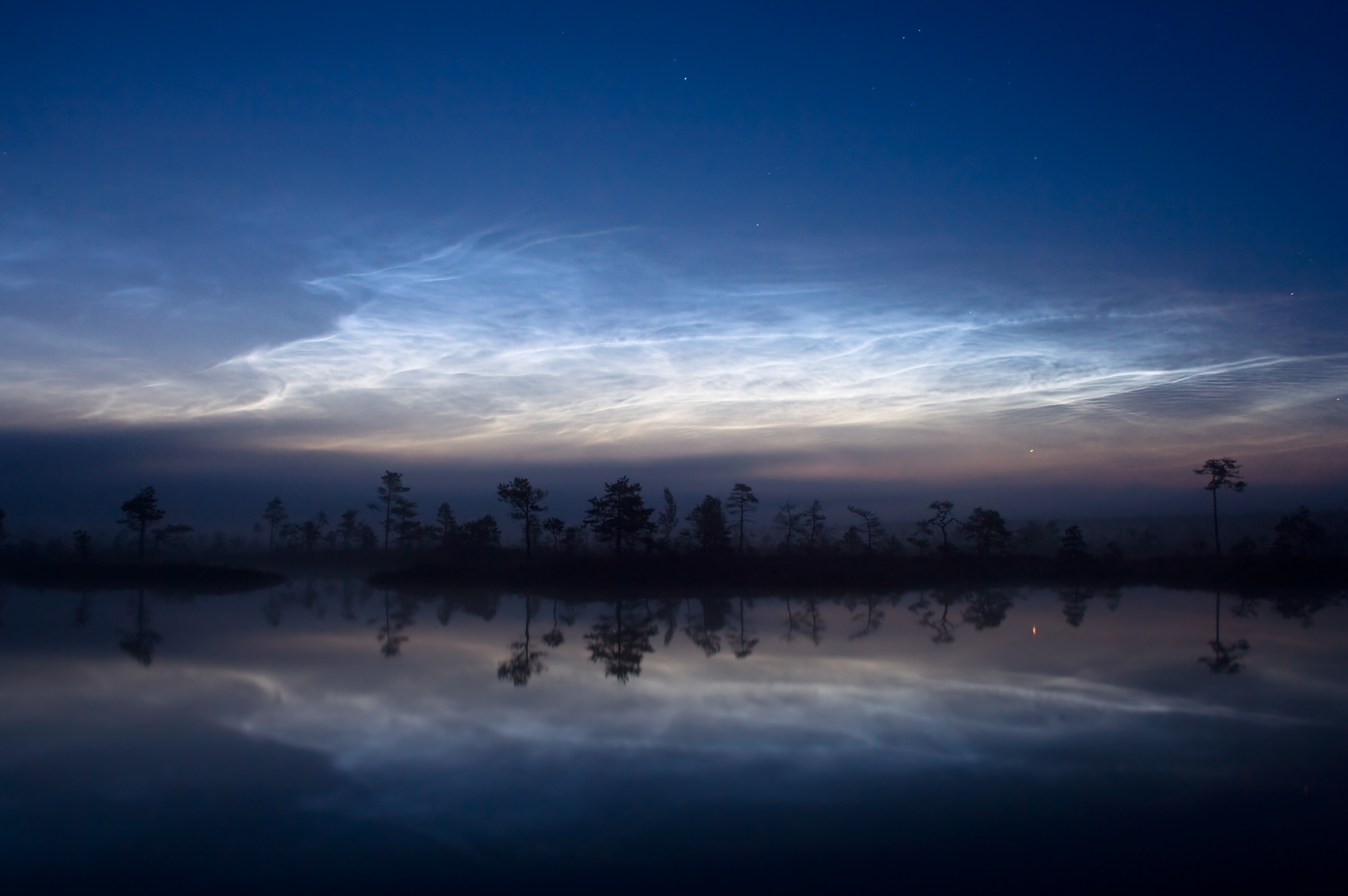 Noctilucent clouds, Kuresoo bog, Soomaa National Park, Estonia.